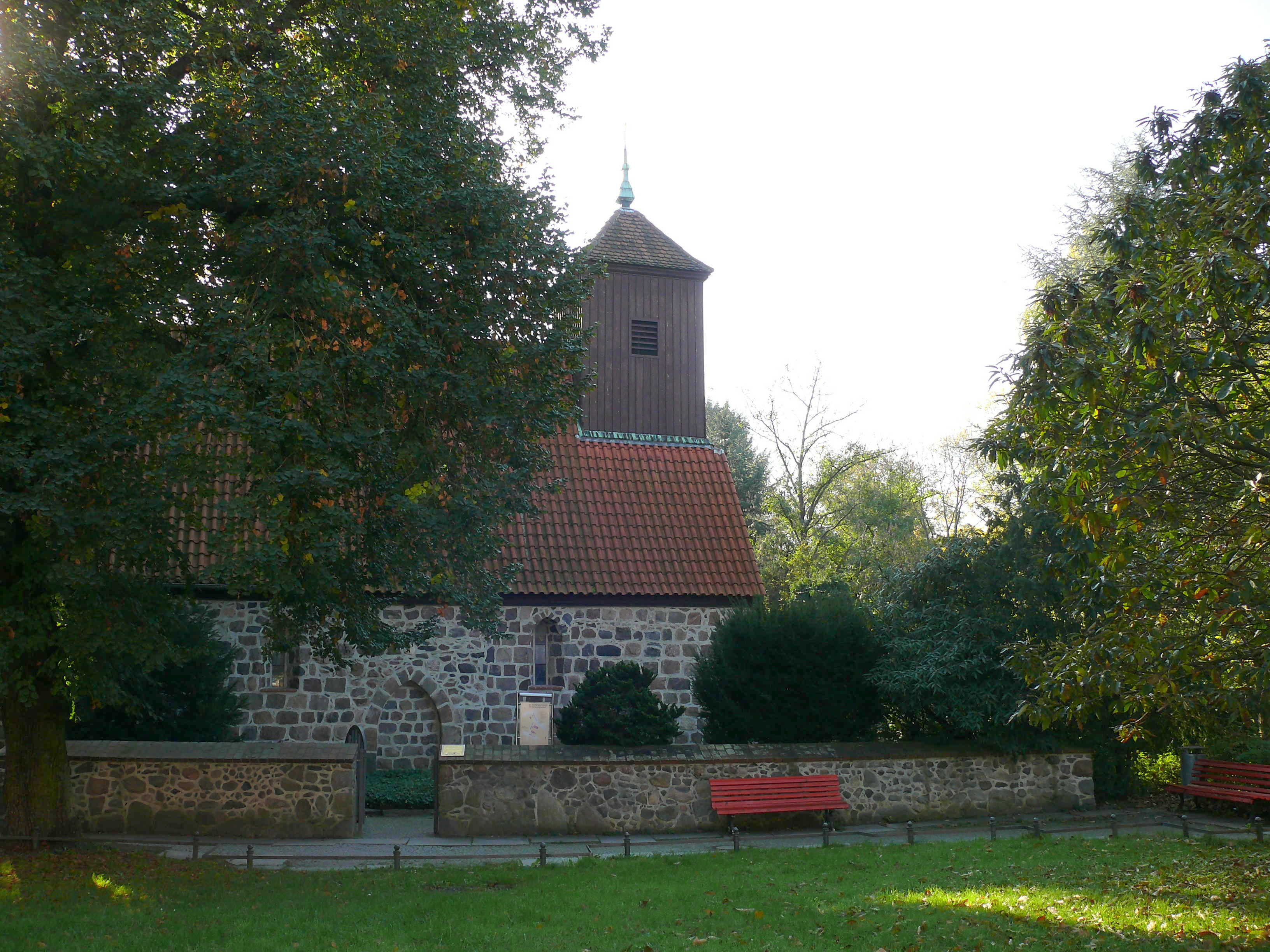 Berlin-Schmargendorf Breite Straße